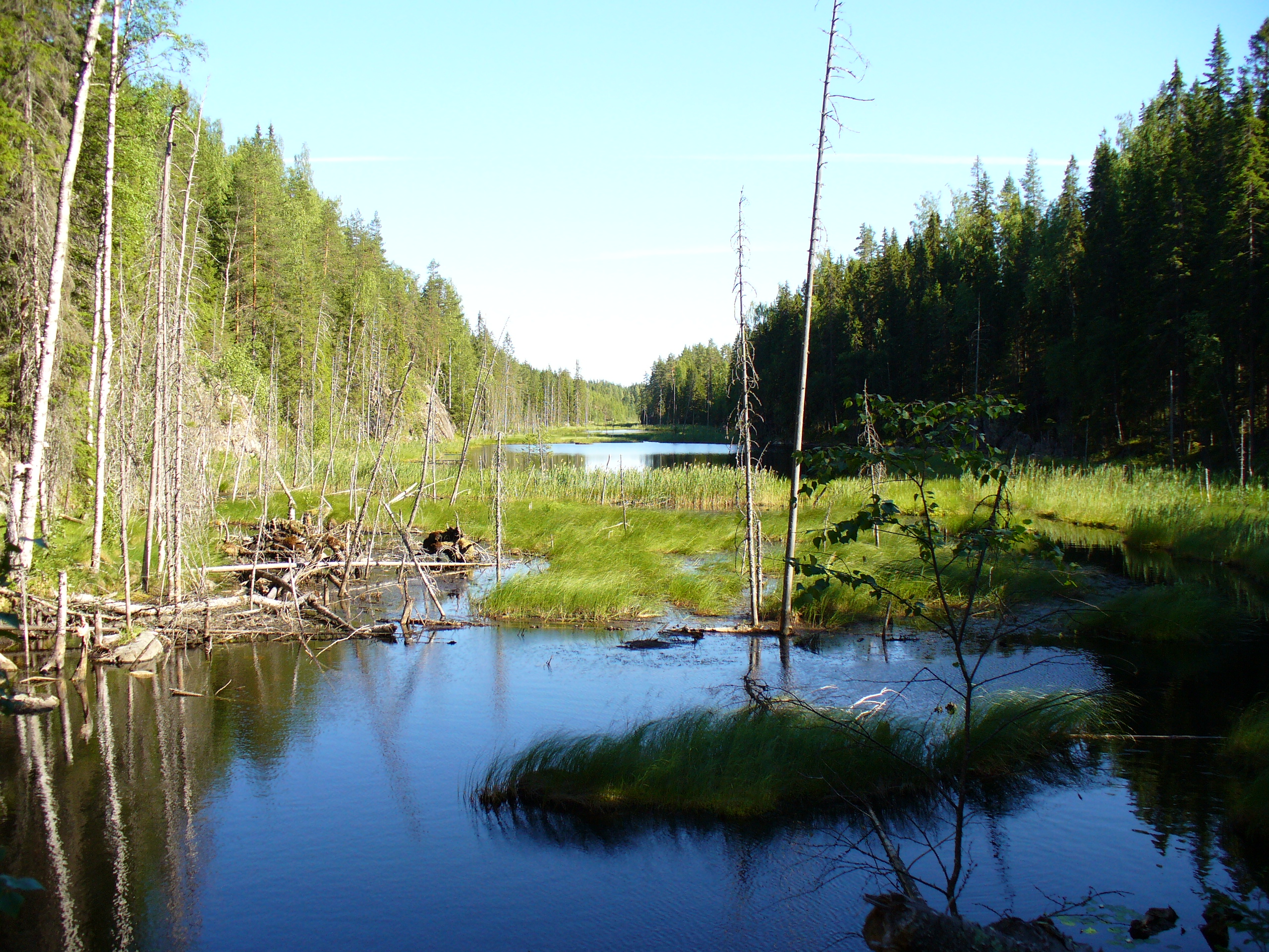 Picture of the "Helvetinportti" (Hell's Gate) formation in Finland.